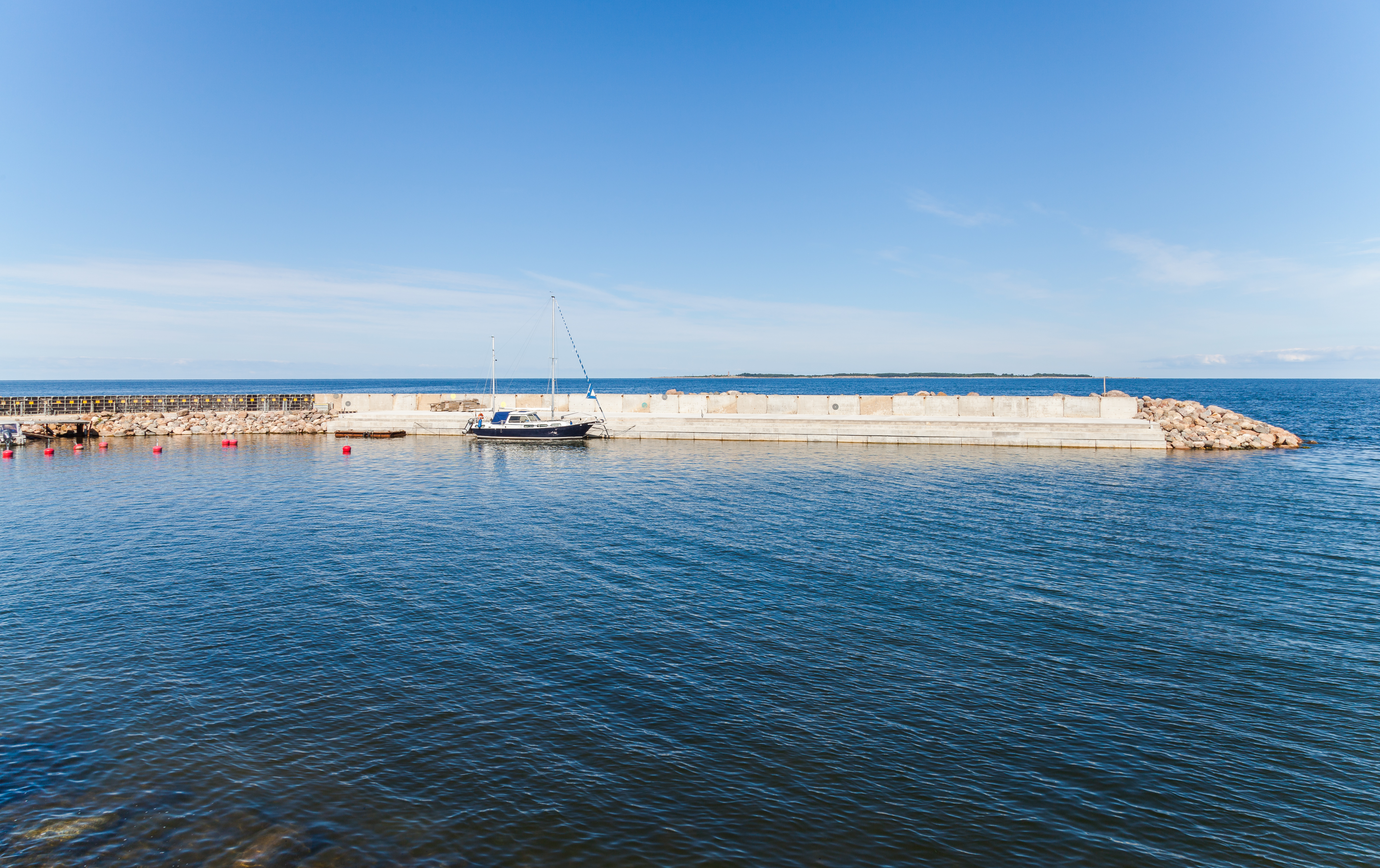 Viinistu, Lahemaa National Park, Estonia